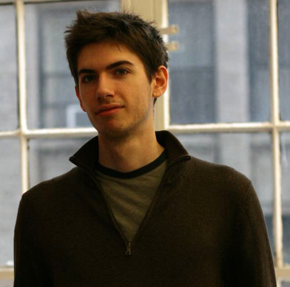 photo of David Karp